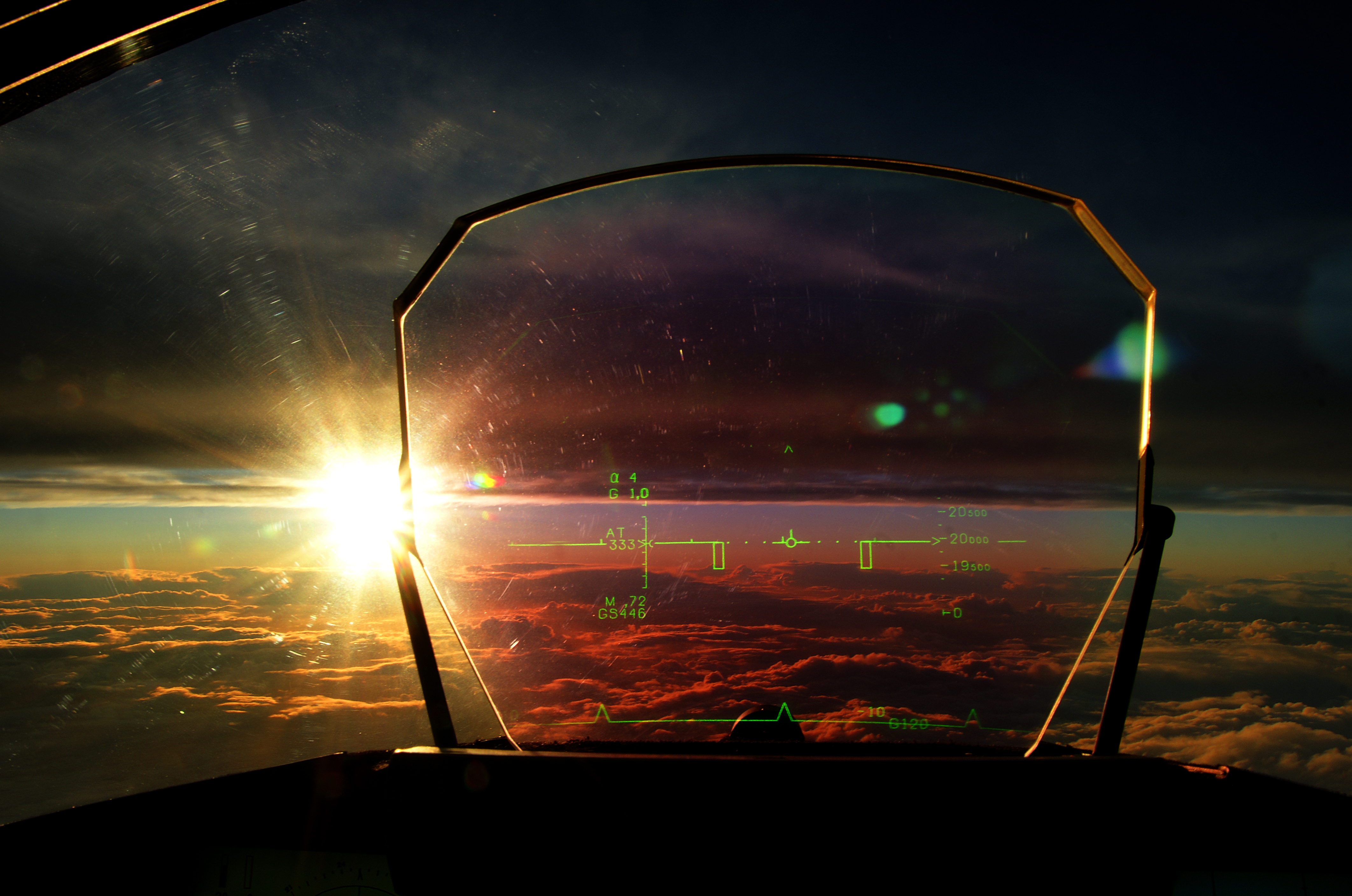 View of the Icelandic skies from the pilot's seat of a Czech Air Force Saab Gripen